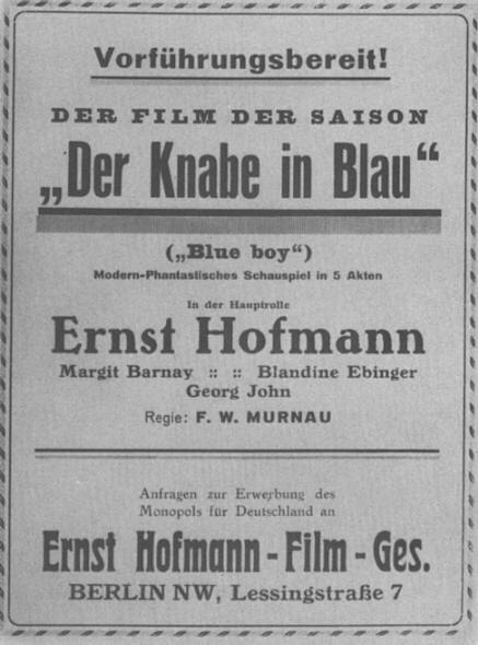 Promotional poster of Murnau´s film "Der Knabe in Blau"